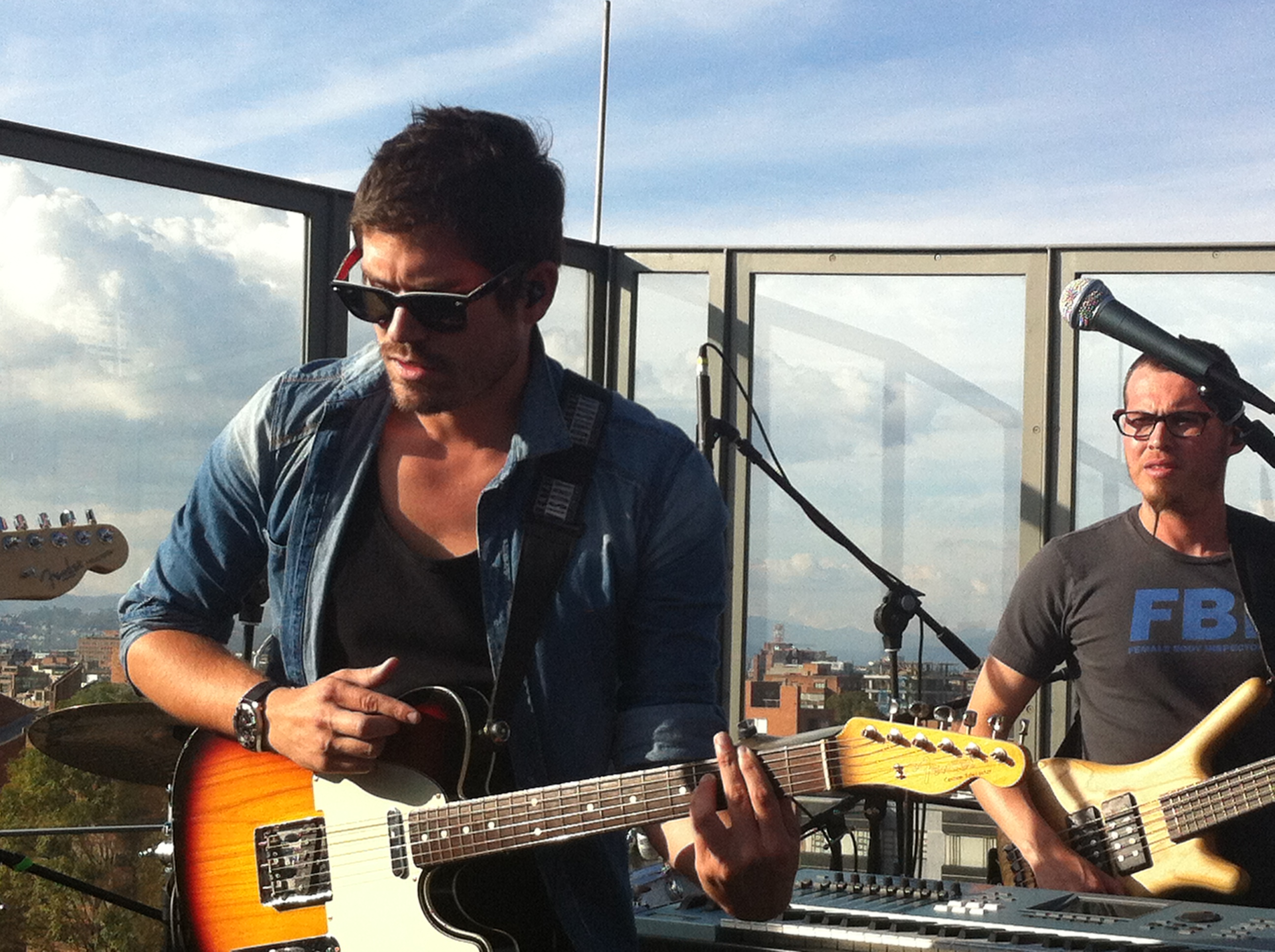 SAMPER LIVE